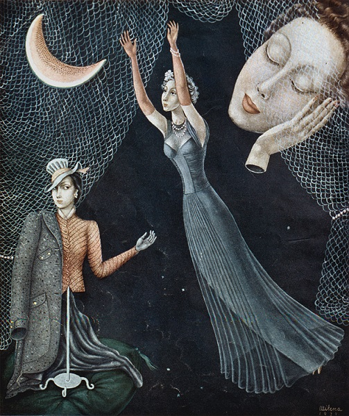 Milena Pavlović-Barili, Hot Pink with Cool Grey, illustration published in Vogue on January 15th, 1940